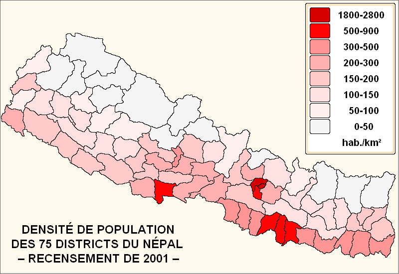 FrenchDensité de population des 75 districts du Népal (wp-FR).EnglishPopulation density of the 75 districts of Nepal (wp-EN).